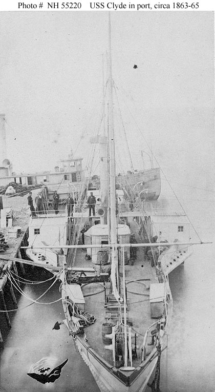 USS Clyde (1863-1865) Tied up in port, circa 1863-1865. Note this former blockade runner's pivot-mounted Dahlgren howitzer. The original photographic print was mounted on a carte de visite.